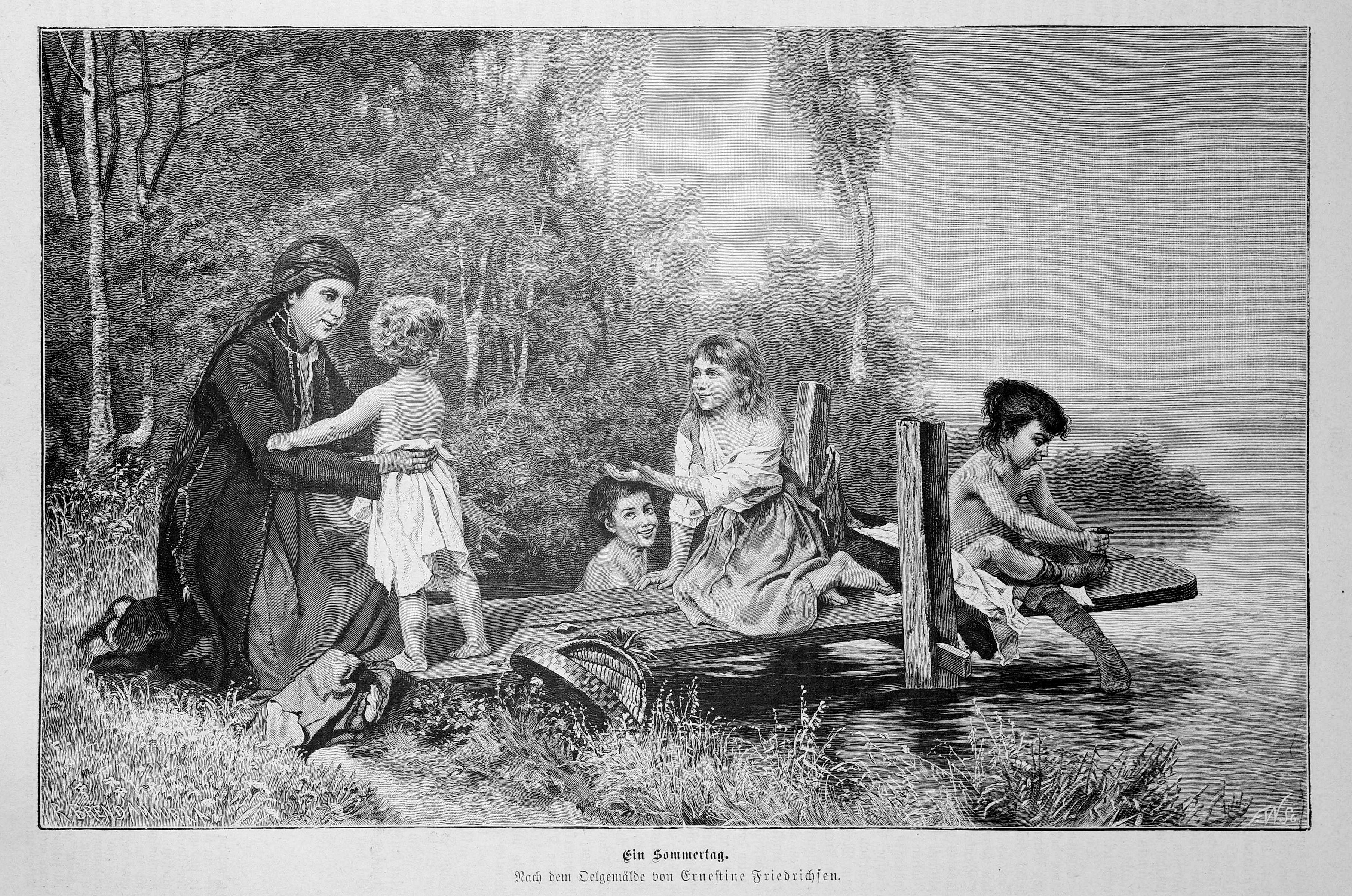 caption: "Ein Sommertag. Nach dem Oelgemälde von Ernestine Friedrichsen."